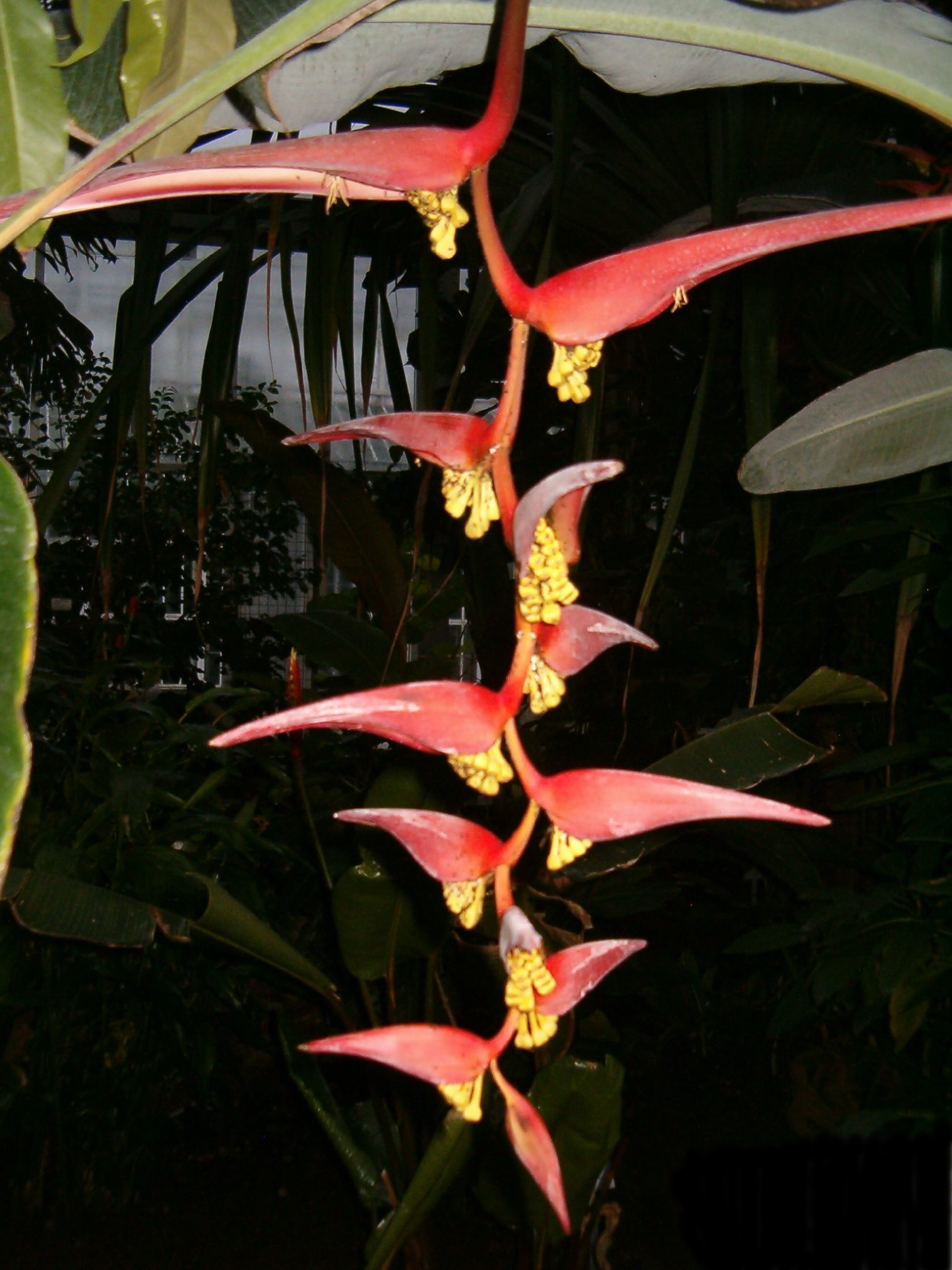 Location: Botanical Gardens Berlin Dahlem